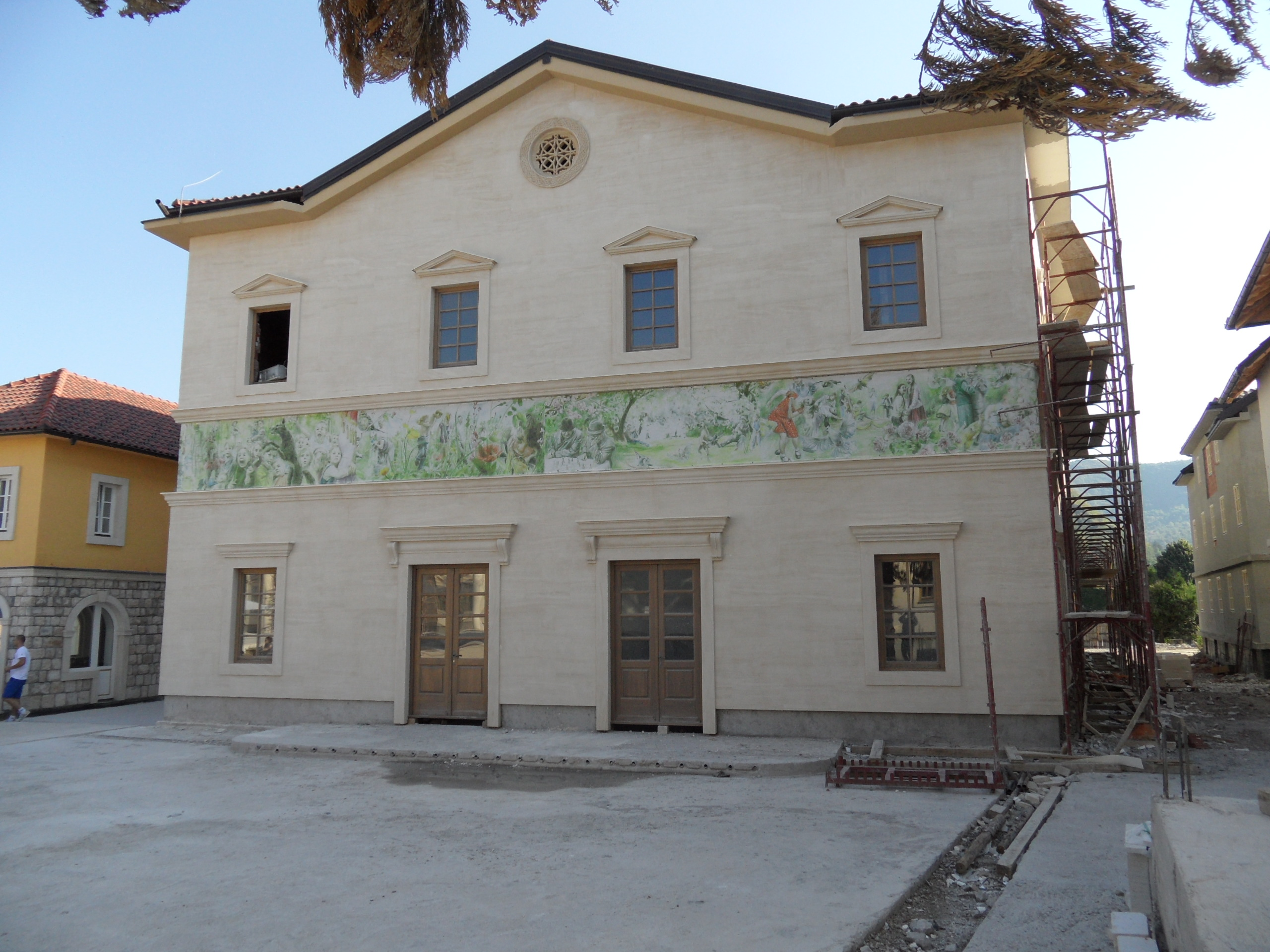 Višegrad, Bosnia and Herzegovina, Andrićgrad, Theater